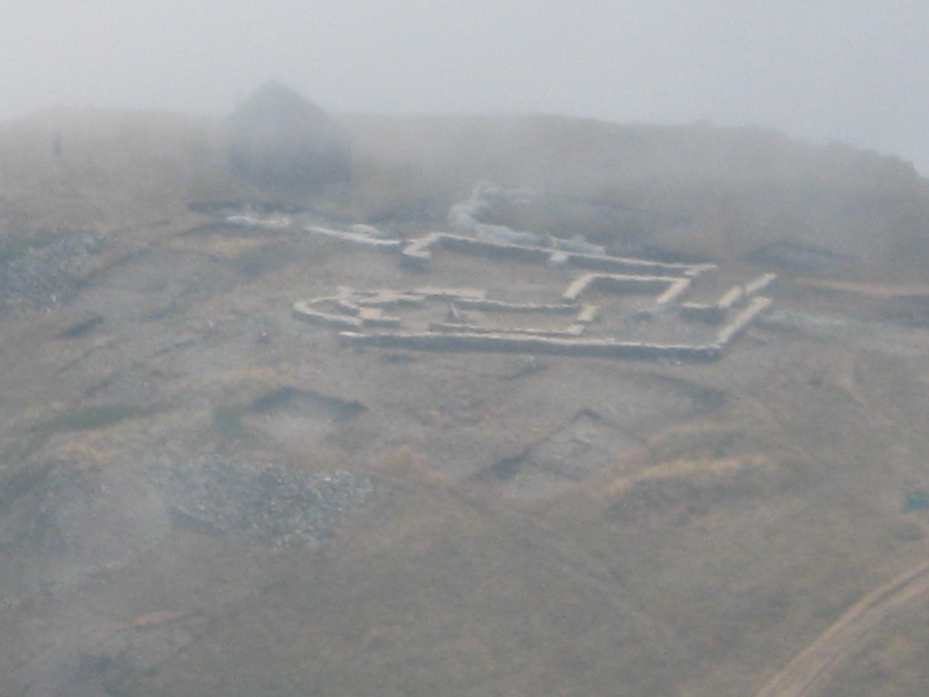 Remains of an early christian basilica on Kopaonik,near Pančić`s peak (2017m).